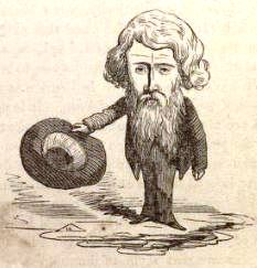 Portrait of Thomas Butler Gunn